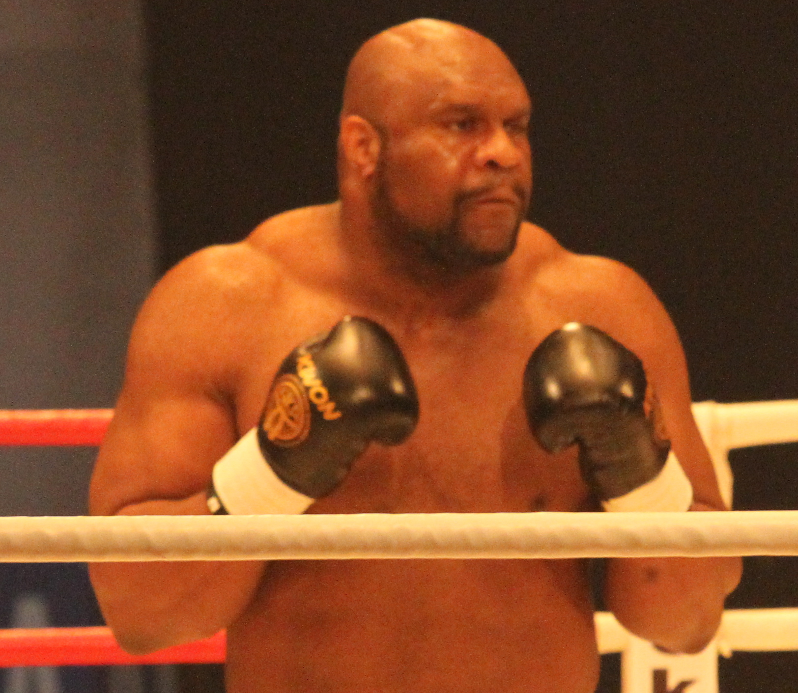 Bob Sapp at the WKA World Championship 2011 in Karlsruhe Germany